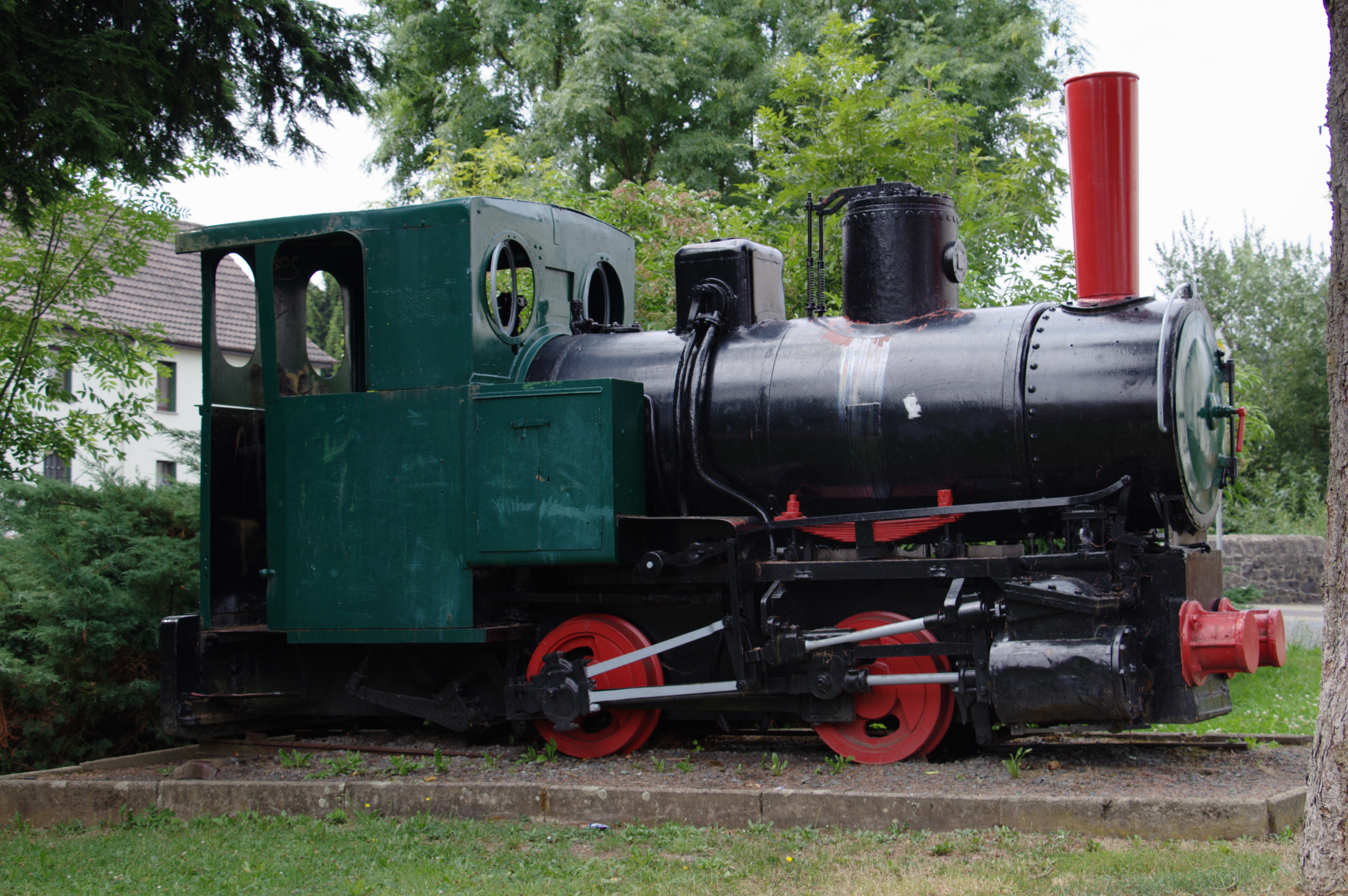 Narrow gauge steam locomotive in Muecke Grosseichen, Hesse, Germany